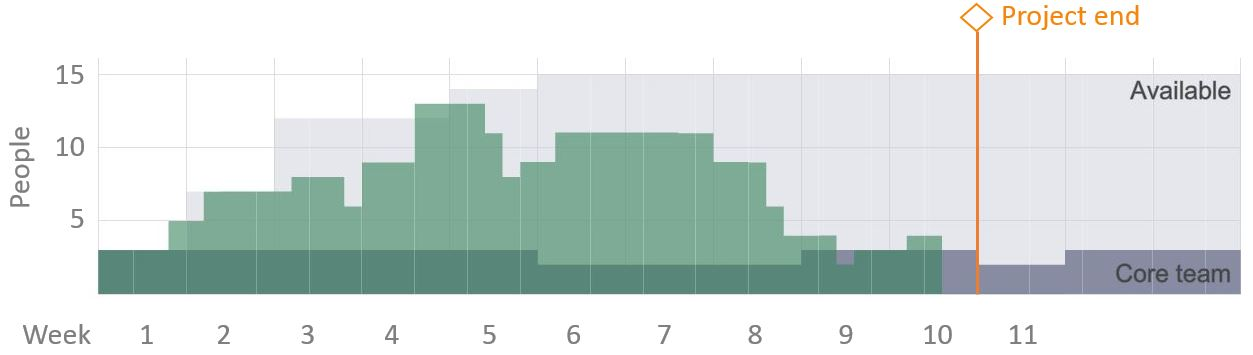 Resource Leveling optimises histogram of resources usage on a project. It shows number of people involved in a project and its change with time. This is an example of Resource leveling in project management simulator SimulTrain(R).